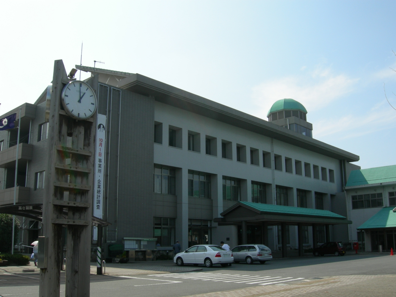 Yame city office Tachibana branch (Former Tachibana Town Office) in Fukuoka Prefecture, Japan